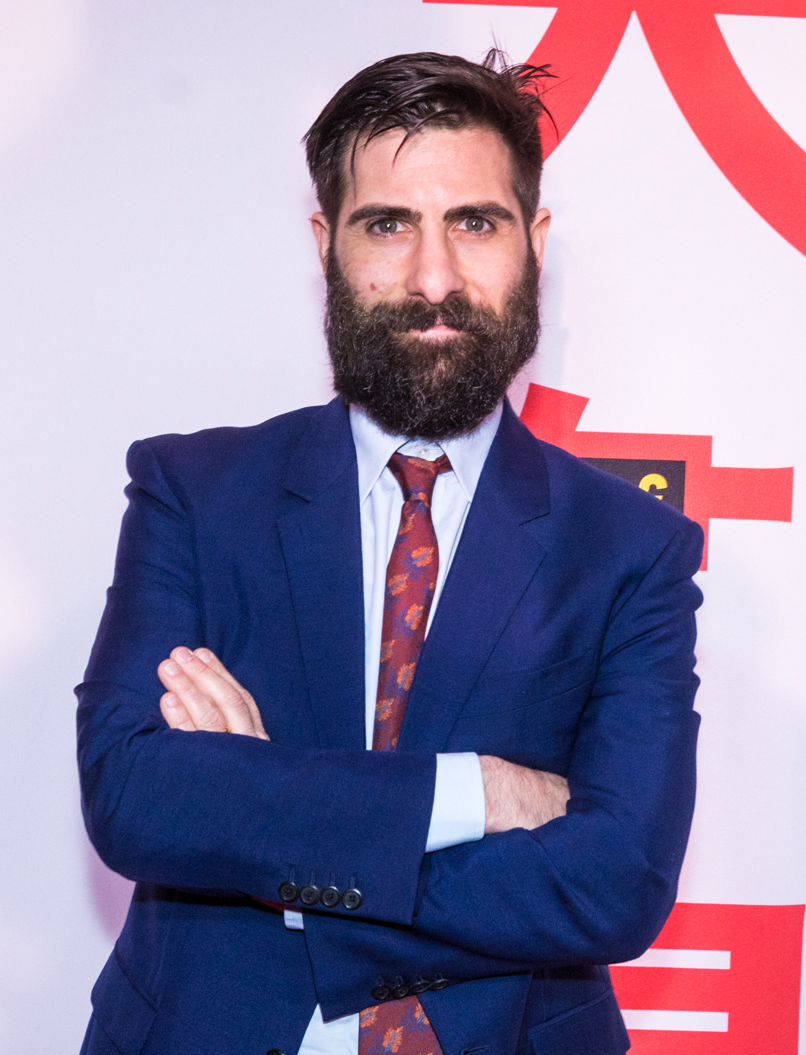 Jason Schwartzman at the screening of Wes Anderson's 'Isle of Dogs' at the Metropolitan Museum of Art in New York on March 20, 2018. Companion book 'The Wes Anderson Collection: Isle of Dogs' from Abrams arrives this May.